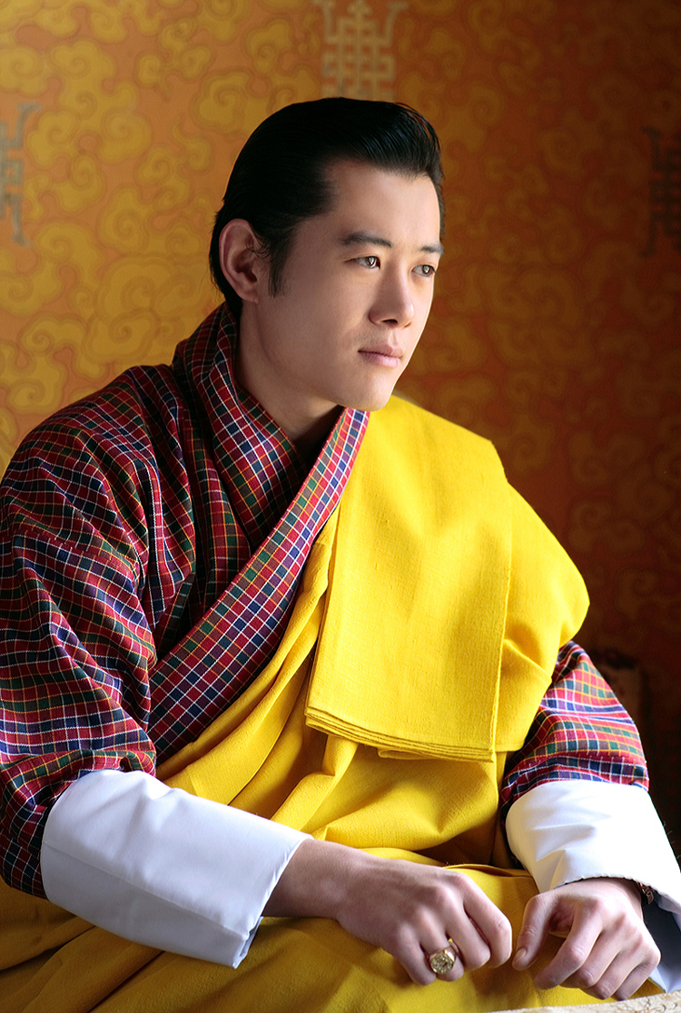 King Jigme Khesar Namgyel Wangchuck of Bhutan. Probably a studio image.